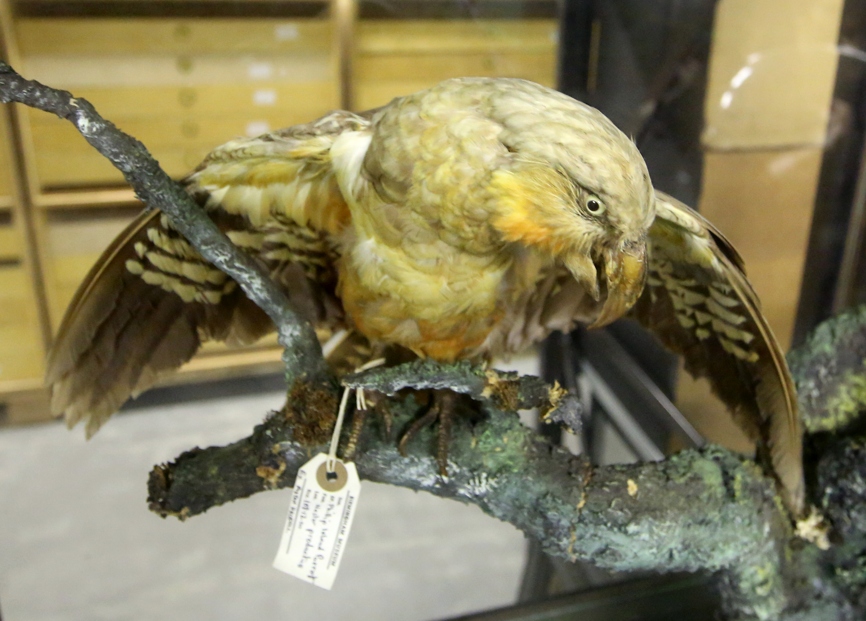 Photo of the Norfolk kaka held by Birmingham Museums Trust 1912Z108